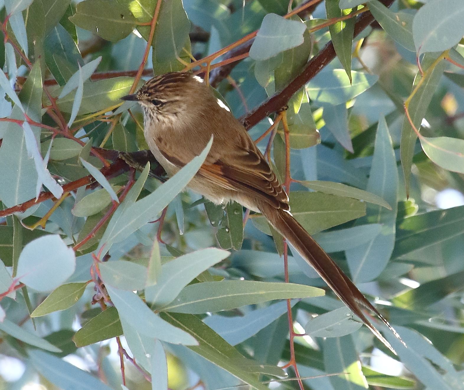 Plain-mantled tit-spinetail at Reserva Bosque Telteca - Lavalle - Mendoza - Argentina